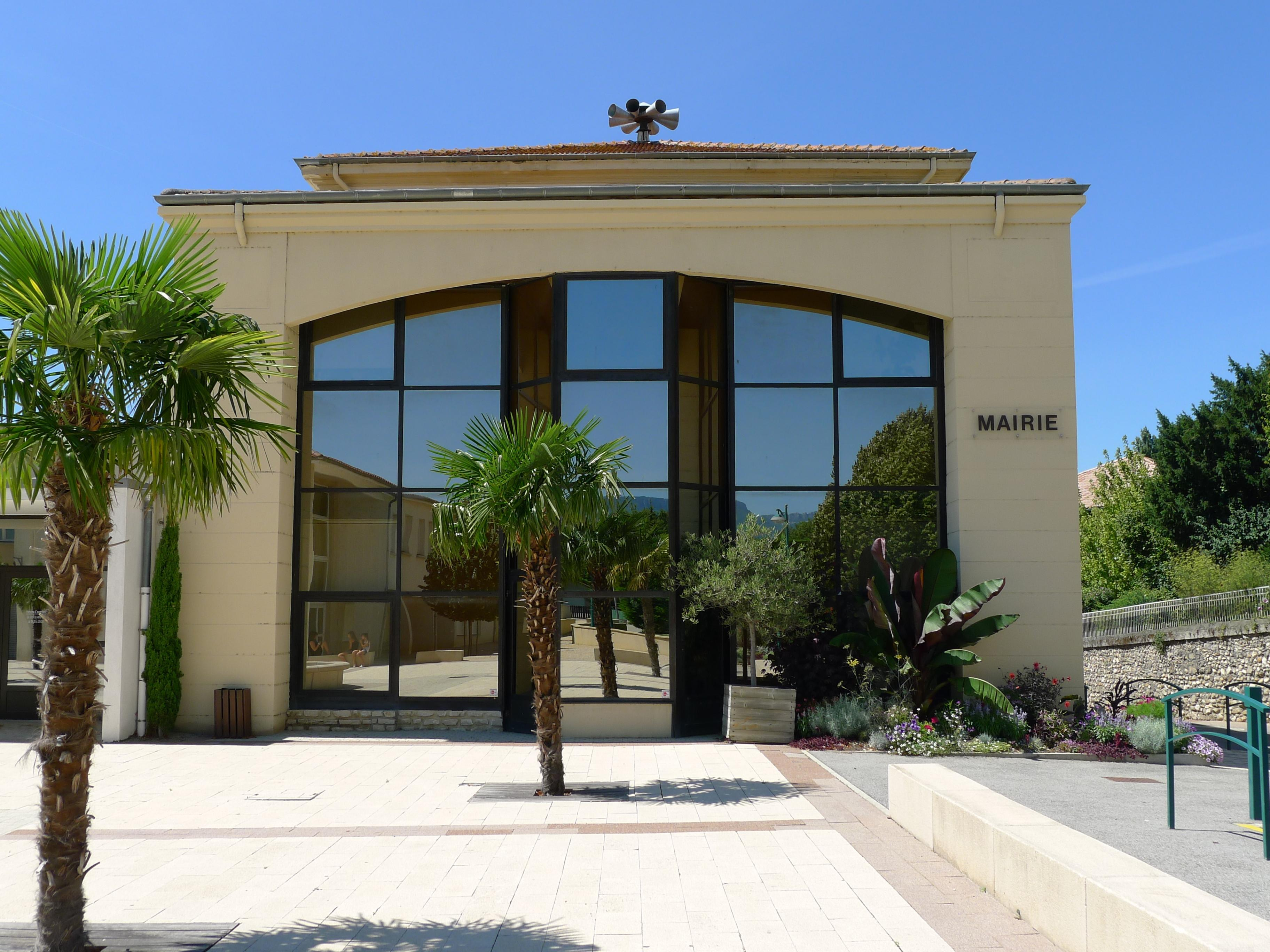 Town hall of Montélier - Drôme - France